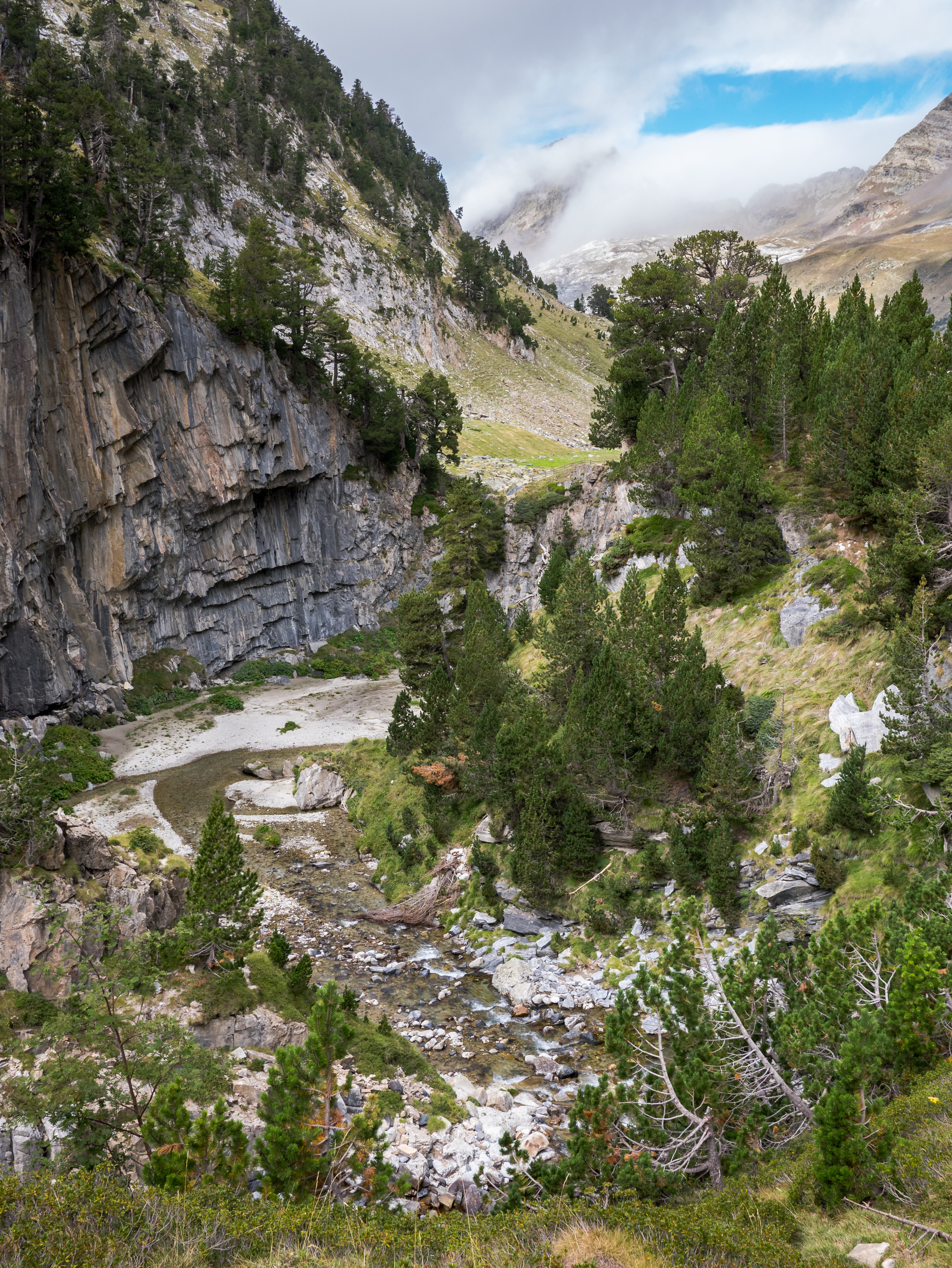 Forau de Aigualluts, the Esera River disappears at this point and seeps completely into the karst. Huesca, Aragon, Spain